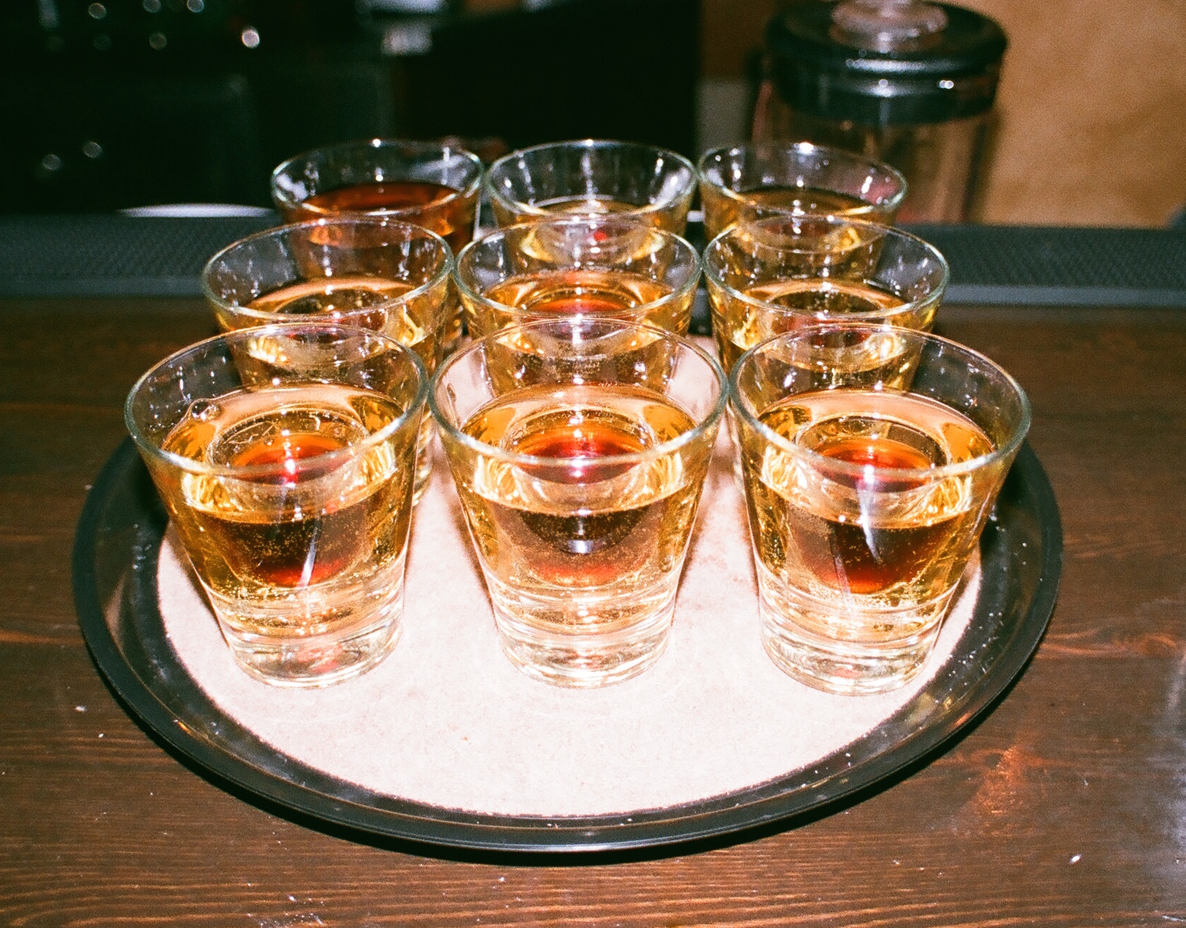 Jägerbomb cocktails (well, sort of) in an Athens bar